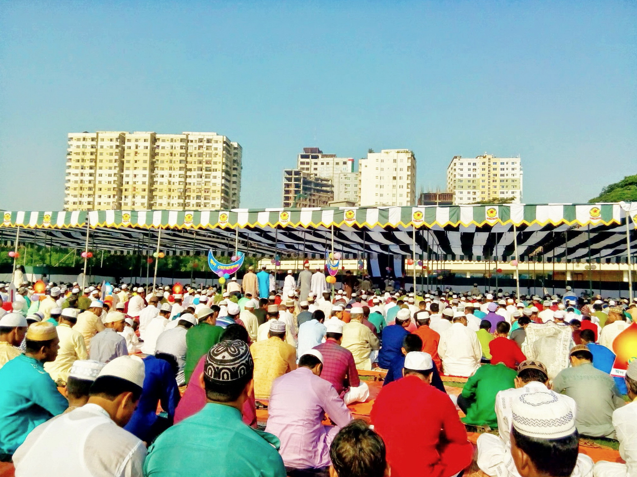 Dhaka congregants can be seen listening to khutbah prior to the Eid prayers held at the parade grounds of Bangladesh Police in Rajarbagh, Dhaka.